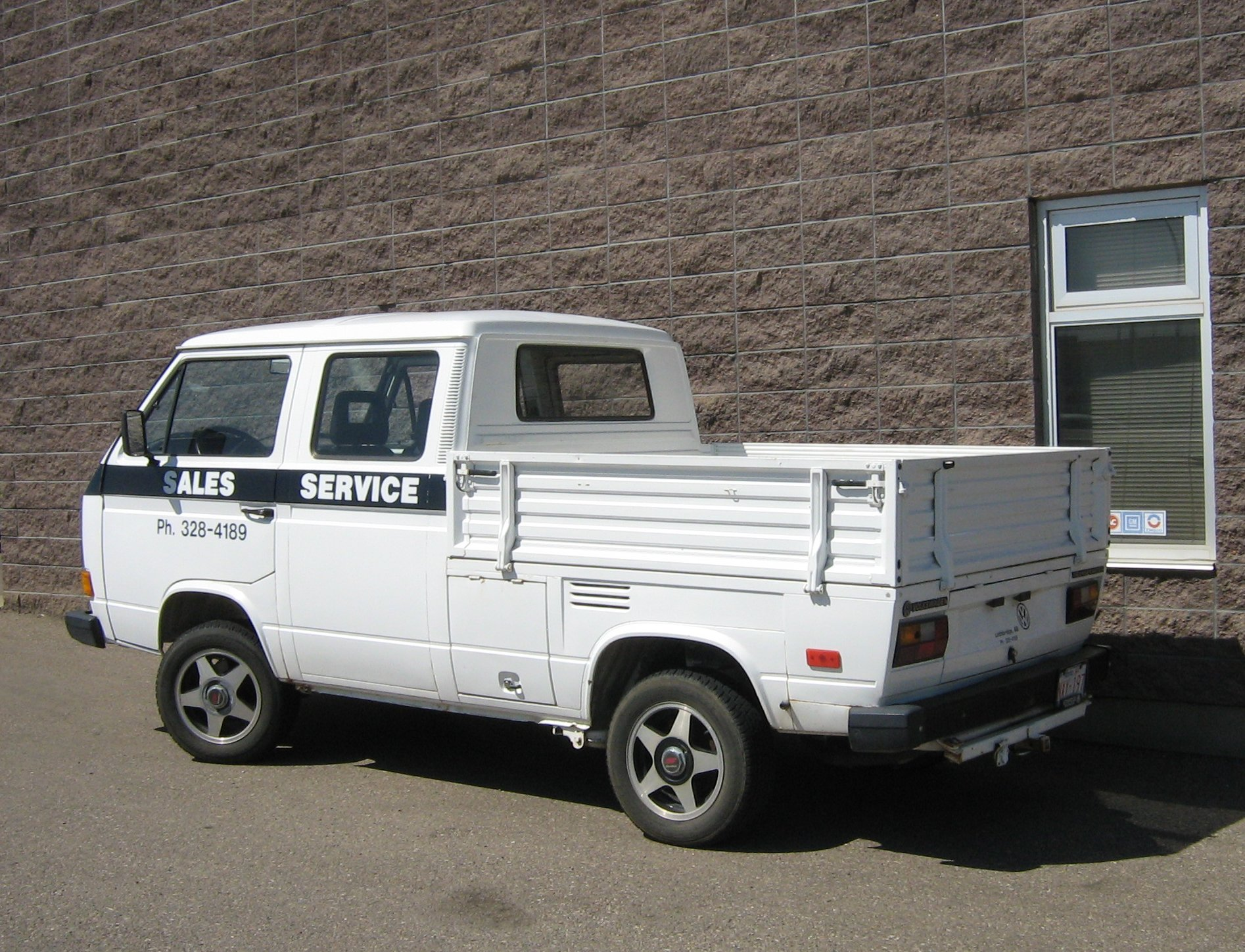 Volkswagen Transporter truck in use at the local Volkswagen dealership.